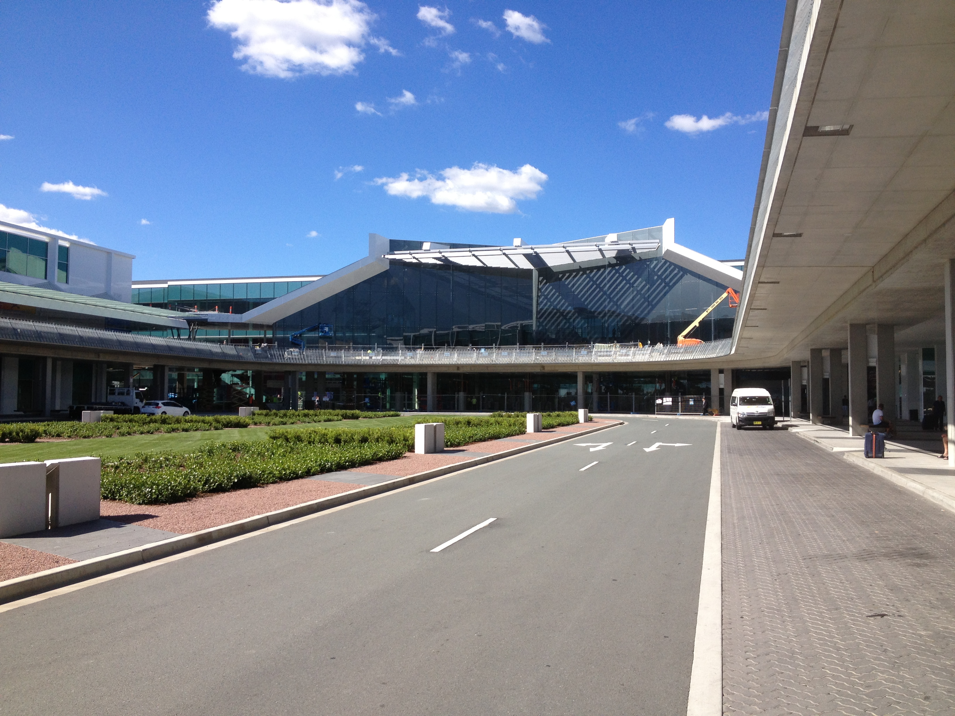 Newly constructed Canberra Airport terminal.